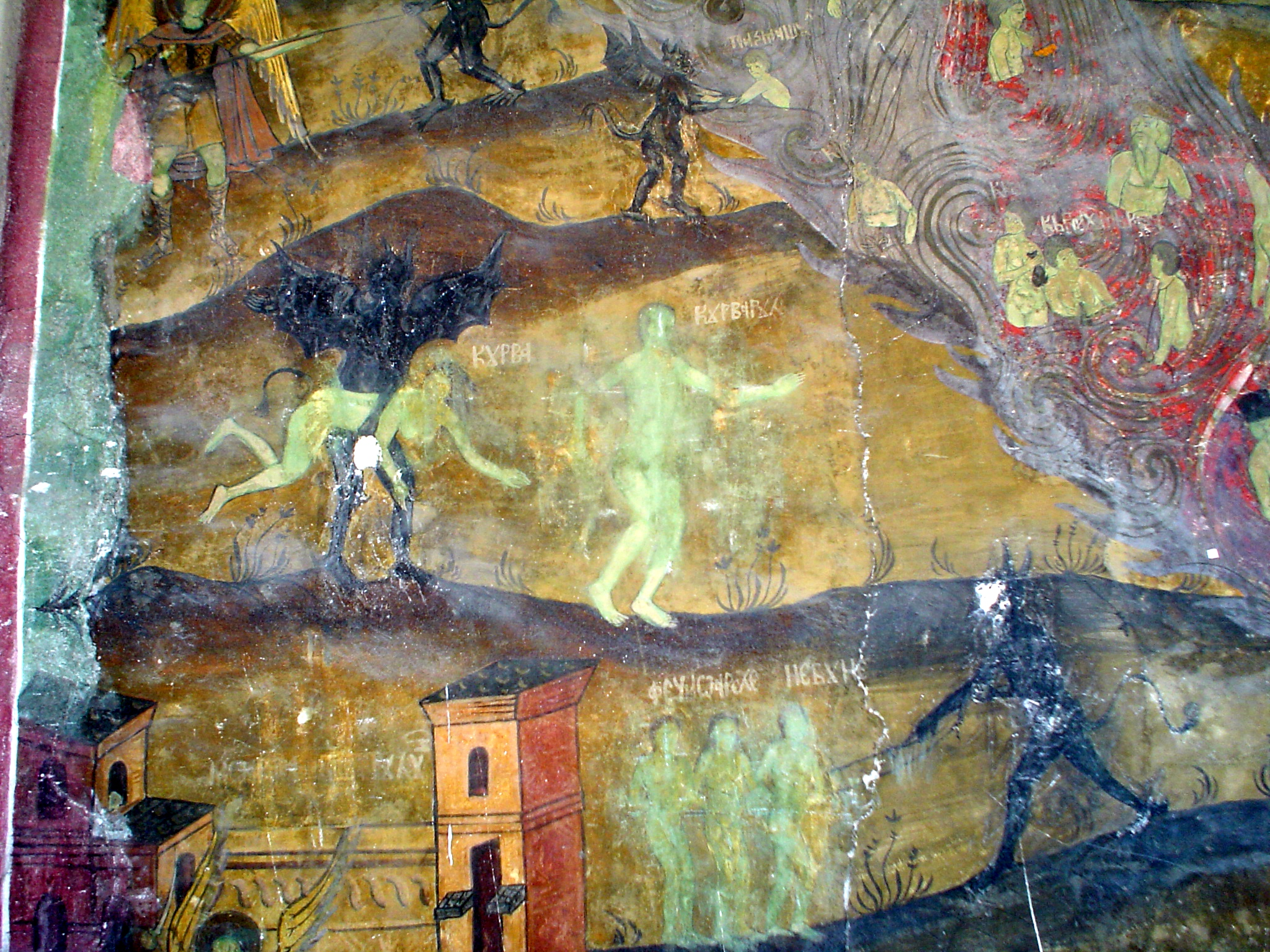 2007-07-09 Bucharest, Romania: Scenes from Hell by the entrance to the small church in Str. Sf. Elefterie, to the left of the door there were scenes from Heaven, from the right scenes from Hell. Heaven seemed like a rather dull place, wheras there was plenty, if painful, things going on in Hell.